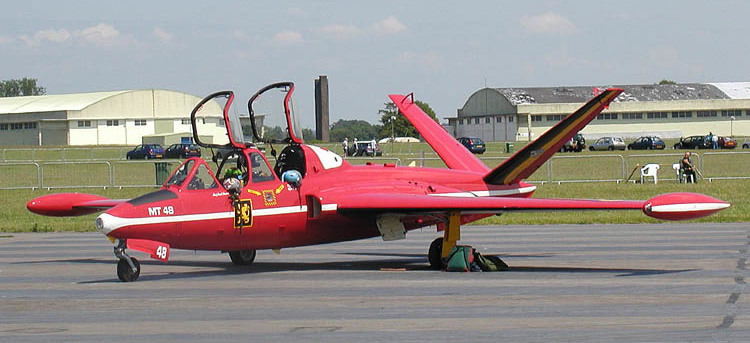 Fouga Magister CM-170R (registration MT48) of the Belgian Air Force, photographed at the Classic Jet preview day, Kemble Airfield, England, in June 2003. Taken by Adrian Pingstone and released to the public domain.